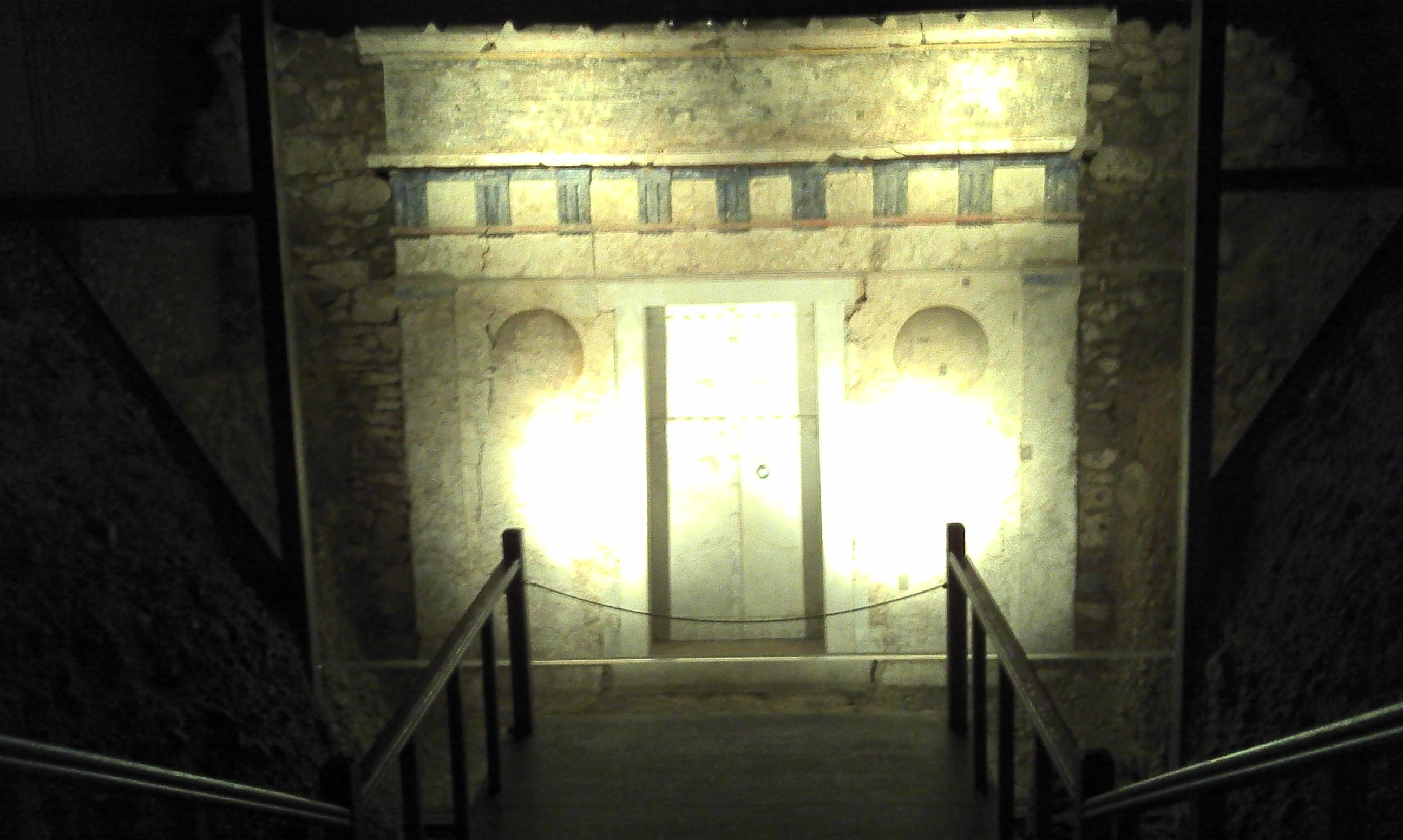 Tomb III Vergina Museum, Macedonia, GREECE.